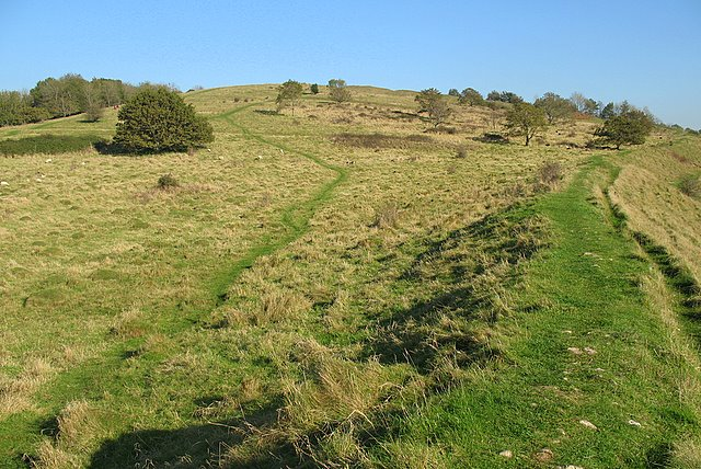 Dolebury Iron Age Hillfort A view across the interior of the rectangular shaped hillfort taken from the southern ramparts. The ramparts date from 3rd to 4th centuries BC.